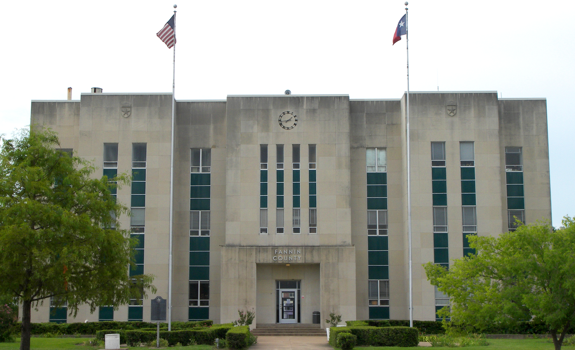 The Fannin County Courthouse located in Bonham, Texas, United States was built in 1889. The courthouse was remodeled in 1929 giving it the current Moderne look.